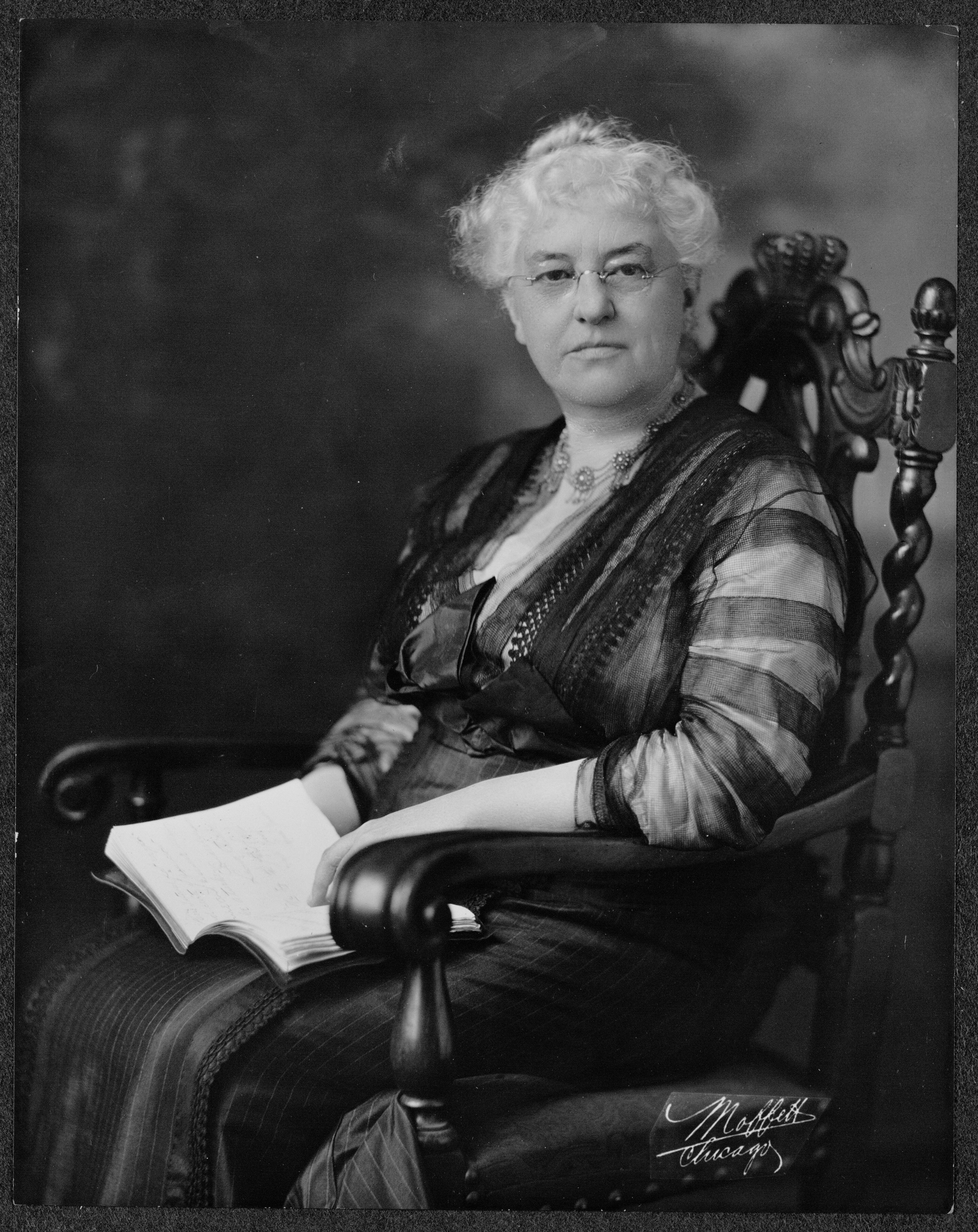 Summary: Three-quarter length portrait of Mary E. McDowell, seated, facing camera, in ornately carved chair, with book in lap. Caption on cropped version of same image reads: "Miss Mary McDowell of Chicago is one of the prominent members of the Advisory Council of the Congressional Union for Woman Suffrage. Miss McDowell is the head of the University Settlement of Chicago and next to Jane Addams is perhaps the most prominent woman in social reform work in that state. Her work as a member of the Advisory Council of the Union has been a great strength to the Union among the social reform groups in general and particularly in that part of the country where she is well known."